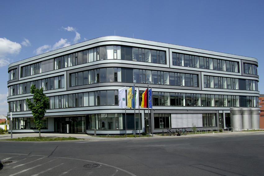 Fraunhofer-Institute for Cell Therapie and Immunology